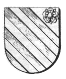 Coat of arms of the noble family "Kolmatz".